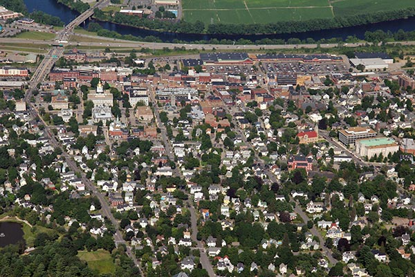 Downtown Concord,NH. The golden dome of the state capitol is at left.